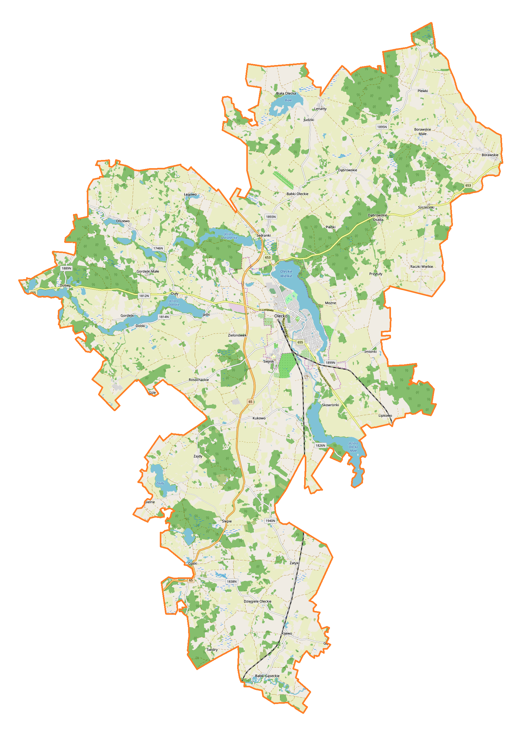 Location map